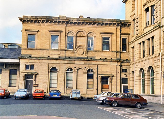 Manchester Victoria's original building 1989 The Lancashire and Yorkshire Railway sensitively incorporated the original 1844 building into the new 1904 facade of Victoria station. More recent builders displayed considerably less aesthetic sense in the brutal lines of the MEN Arena which now looms over the station.